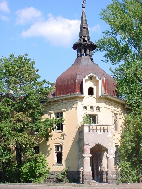 Deserted house in Kronstadt